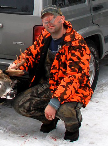 It is a common practice for hunters to pose with their harvests at the Midway General Store on Federal Forest Highway 13 near the Delta and Alger County lines. The store is one of the only public gathering places for miles in the vast expanse of the Hiawatha National Forest. This detail shows one hunter.